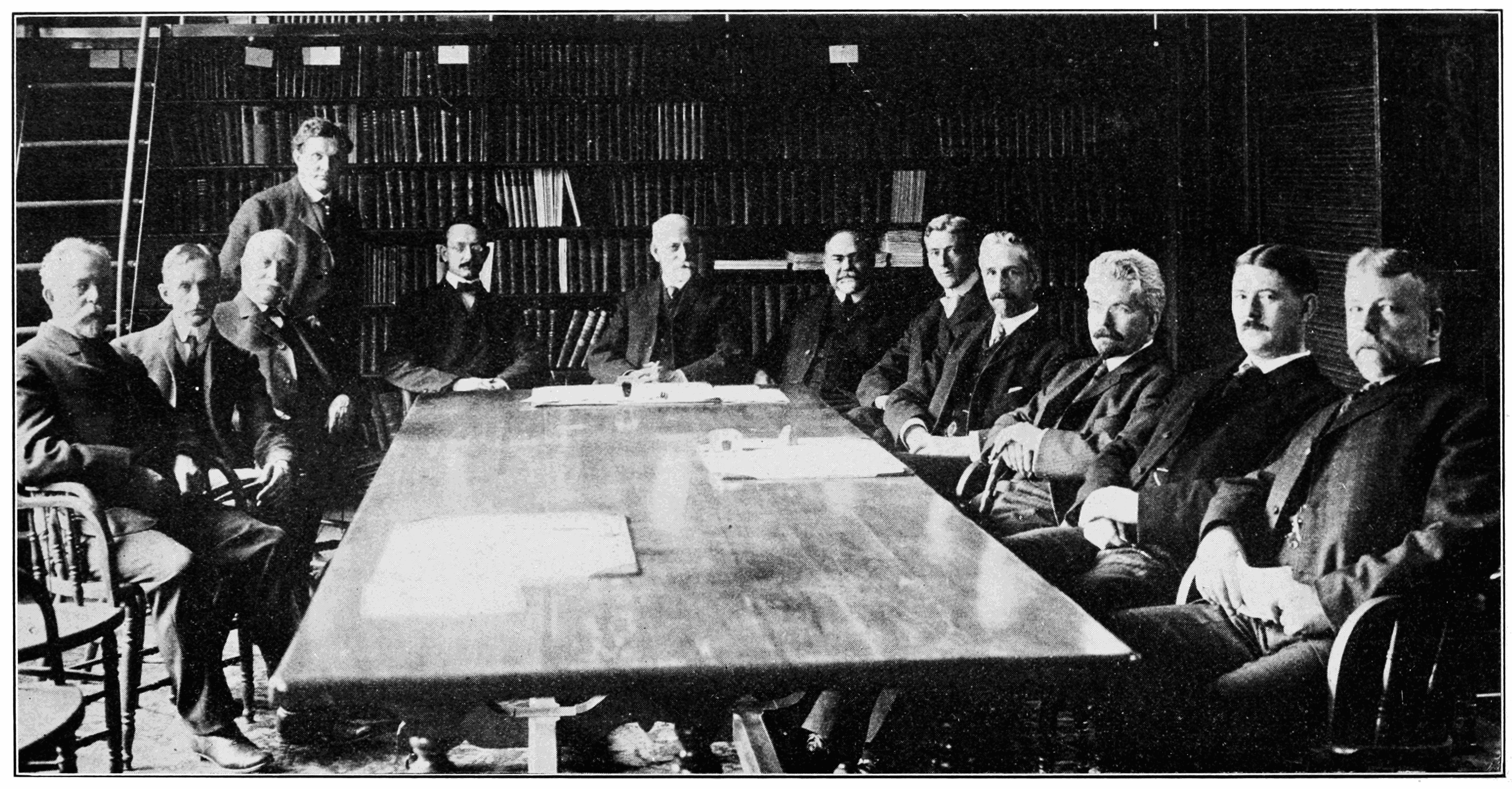 Anatomists conference at the wistar institute